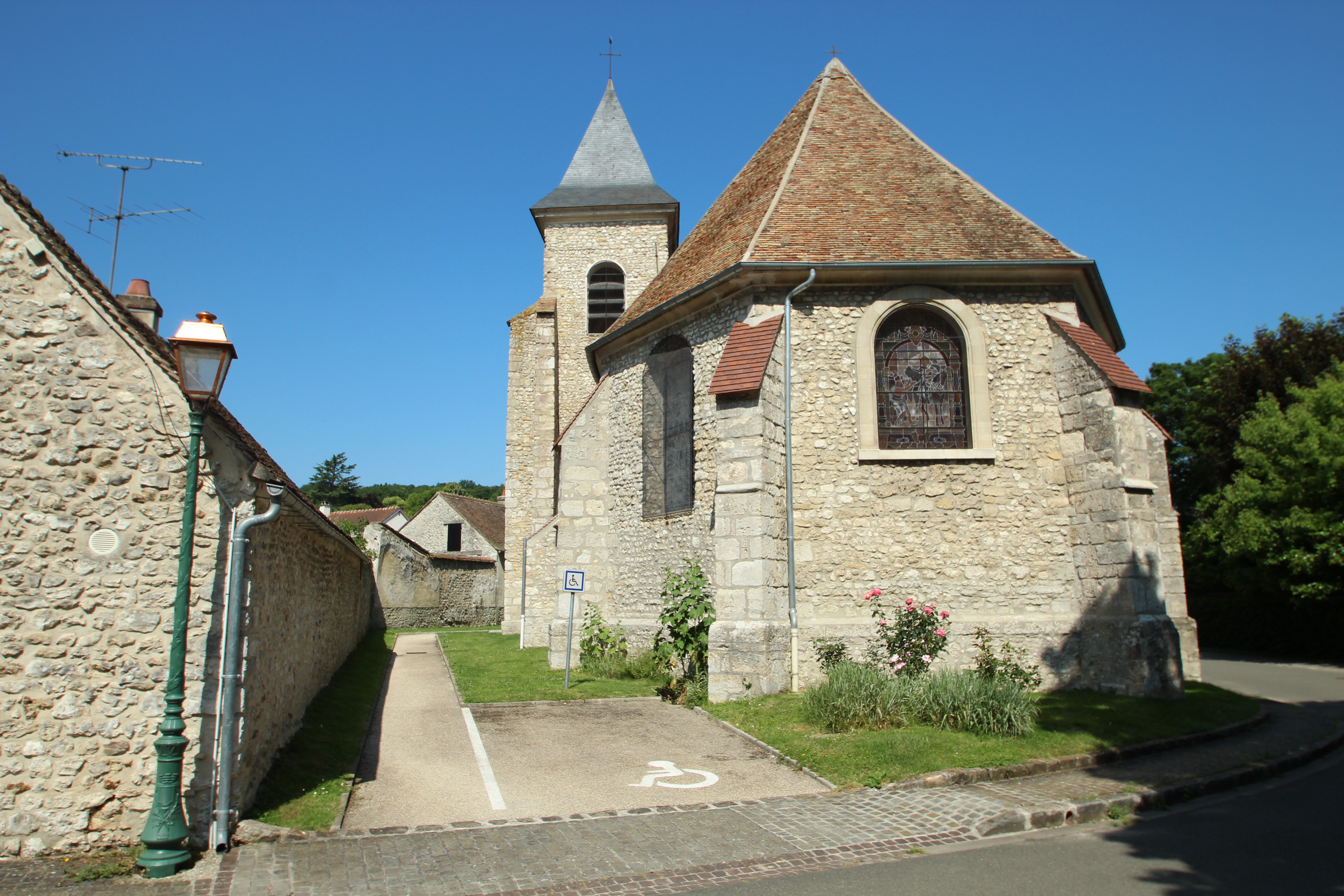 Saint-Martin church in Villette in the Yvelines department in France.